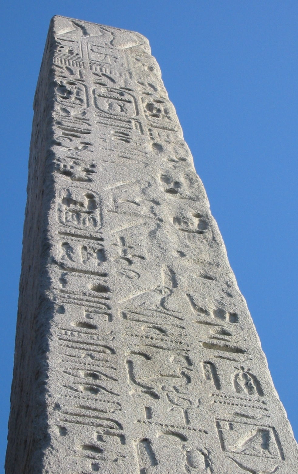 London